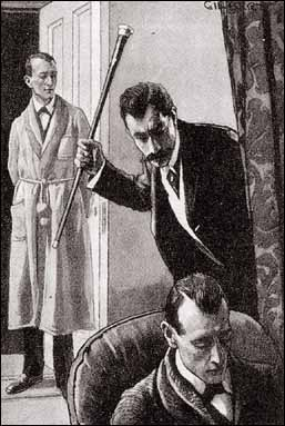 Arthur Conan Doyle, The Adventure of the Mazarin Stone (1921), Illustration by Alfred Gilbert, in The Strand Magazine